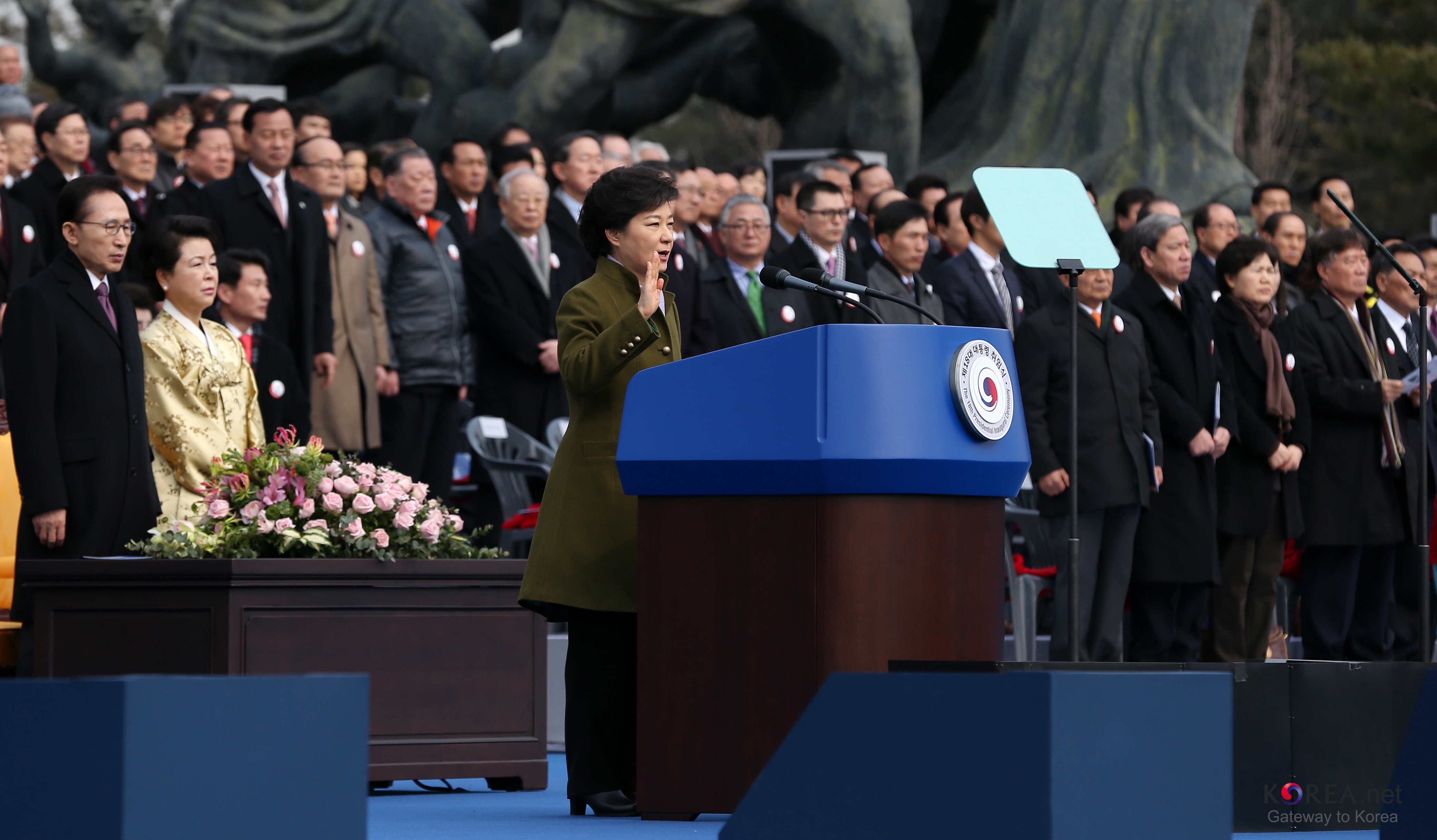 The inauguration ceremony for Park Geun-hye, South Korea's 18th, and first female, President.